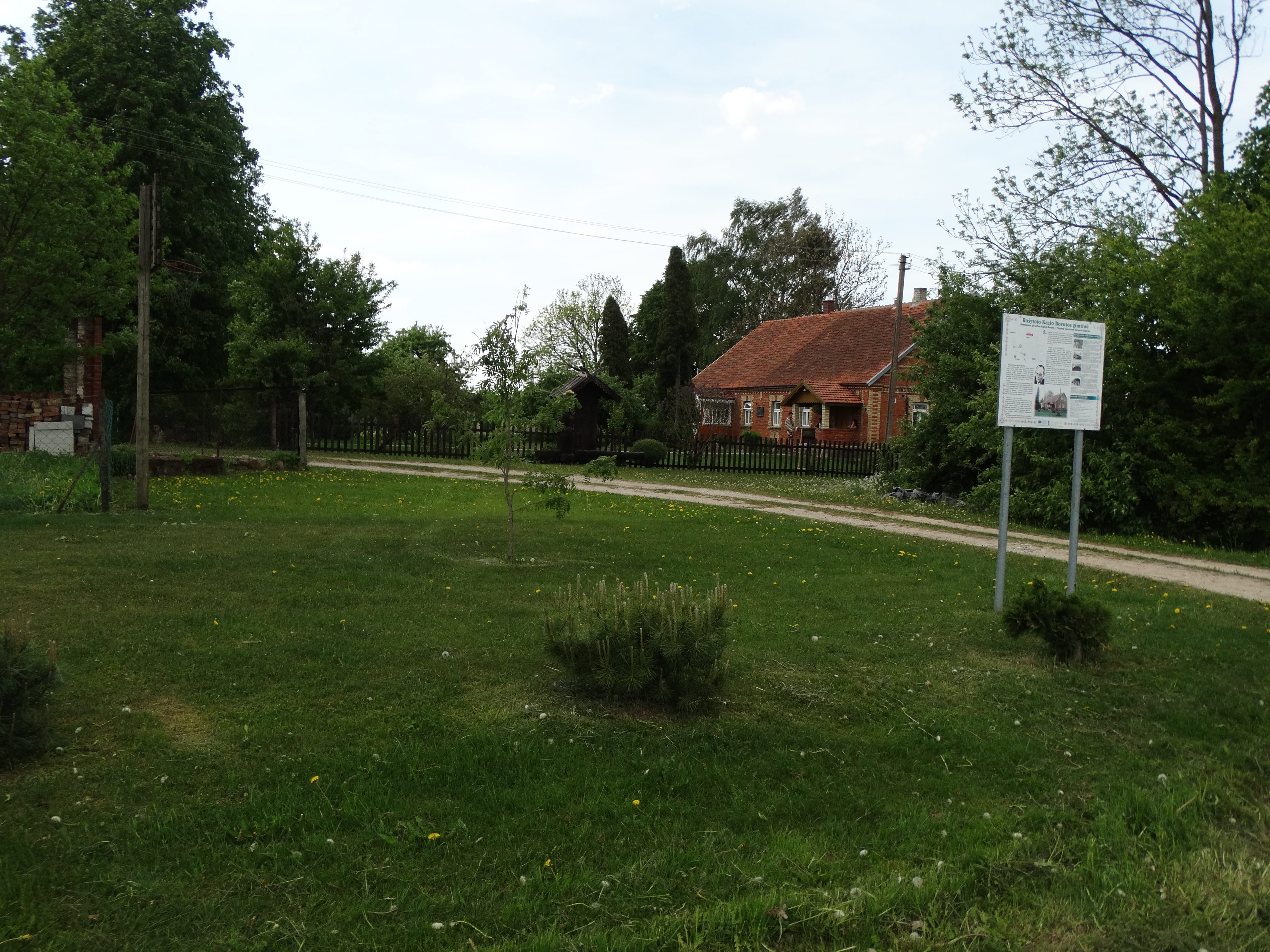 Kūlokai, Marijampolė Municipality, Lithuania